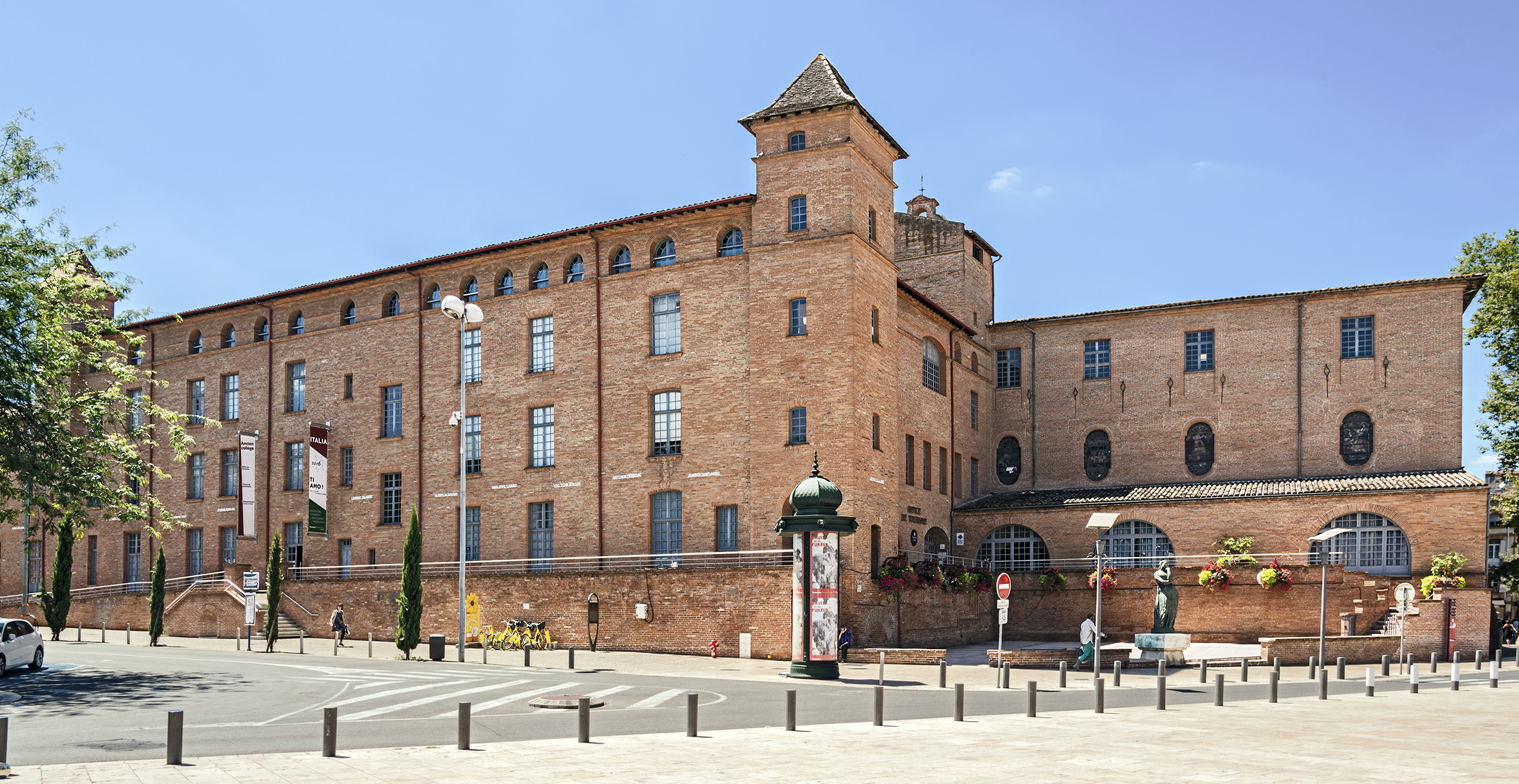 The facade of the Jesuit college of Montauban